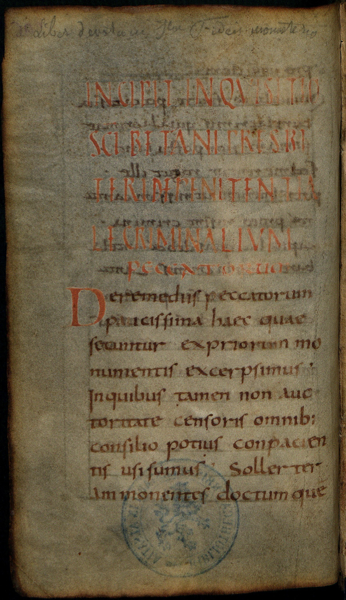 Reprodution of Sélestat, Bibliothèque humaniste, MS 132, fol. 96v